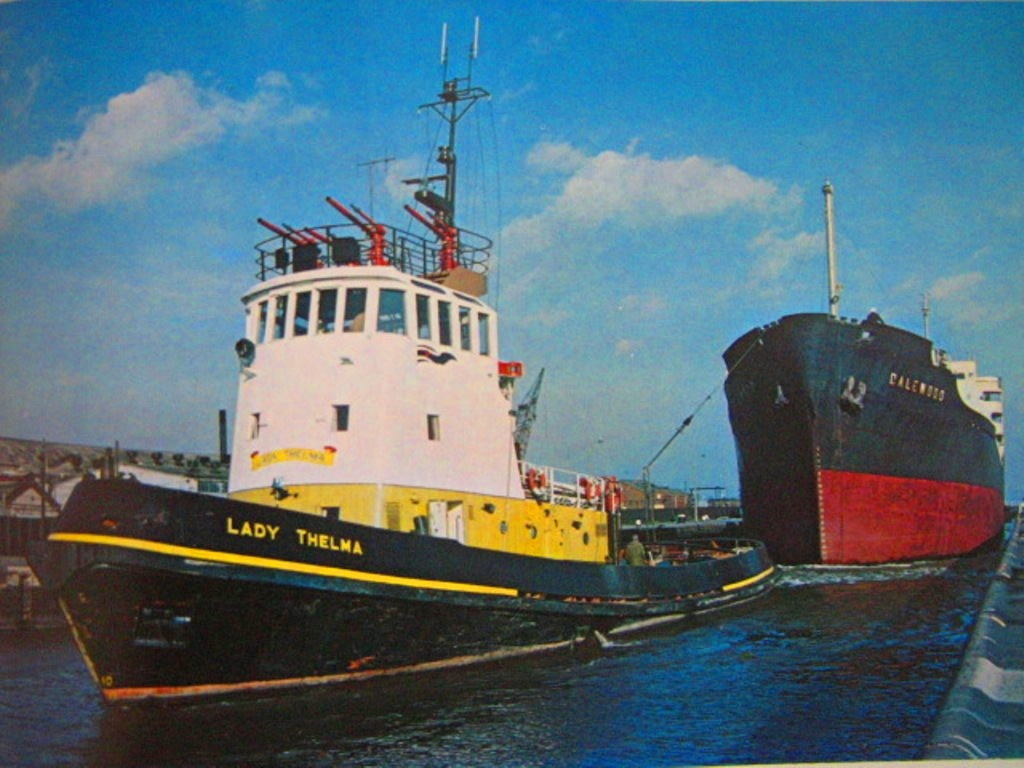 Name: LADY THELMA IMO: 6701682 Year: 1967 GRT: 213 LOA: 32 BM: 9 Speed: 12 Builder: Appledore Shipbuilder Ltd., Appledore